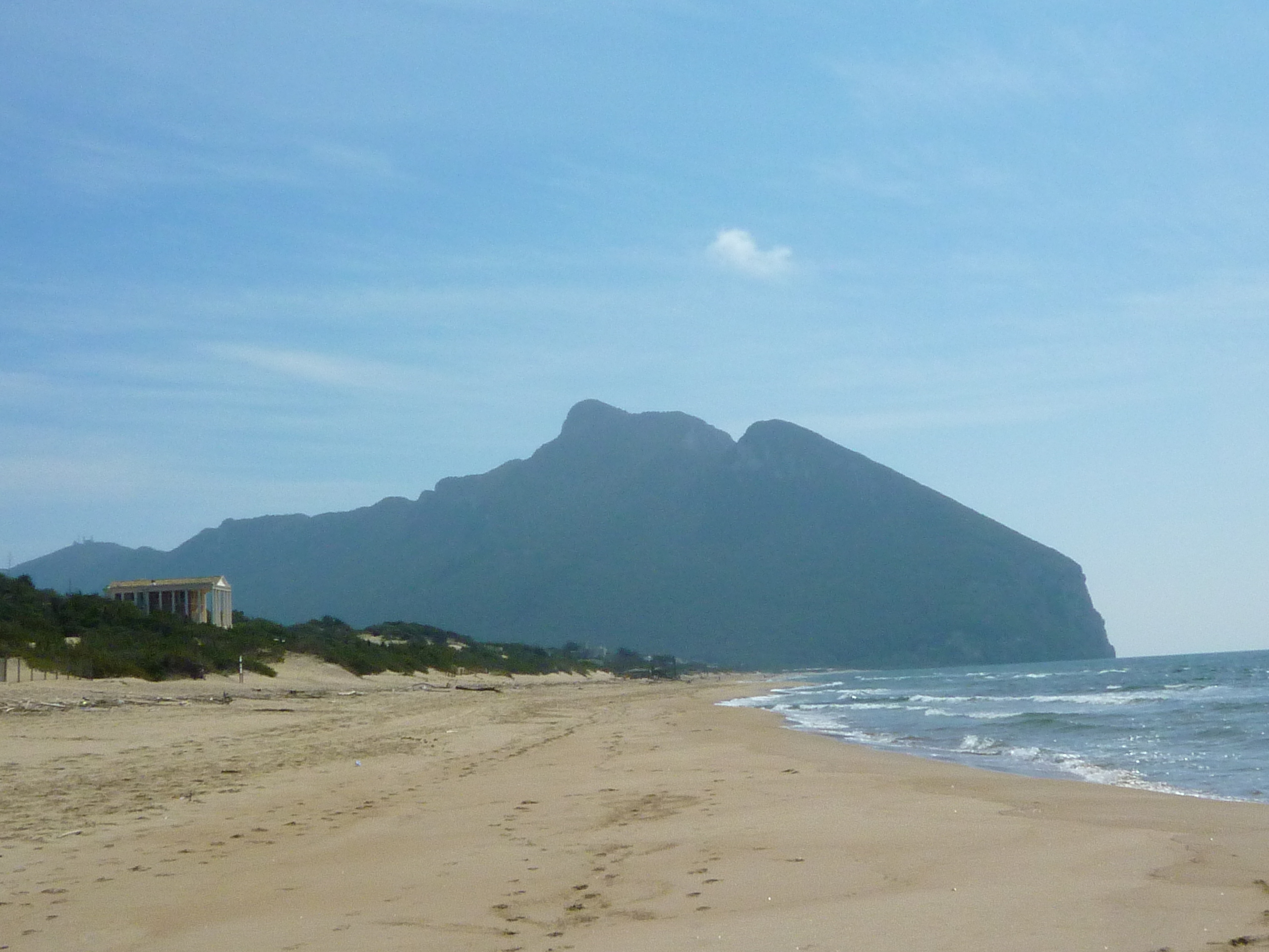 Il Monte Circeo e Villa Volpi (Circeo - Sabaudia - Latina - Italia)